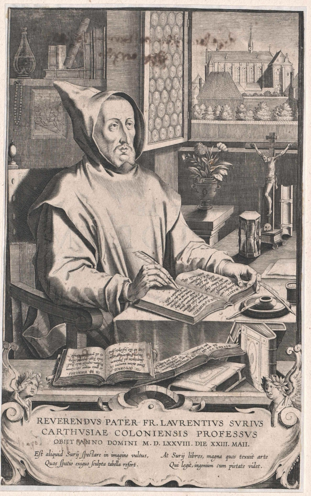 Laurentius Surius (1522-1578), Kartäuser und Gelehrter in Köln